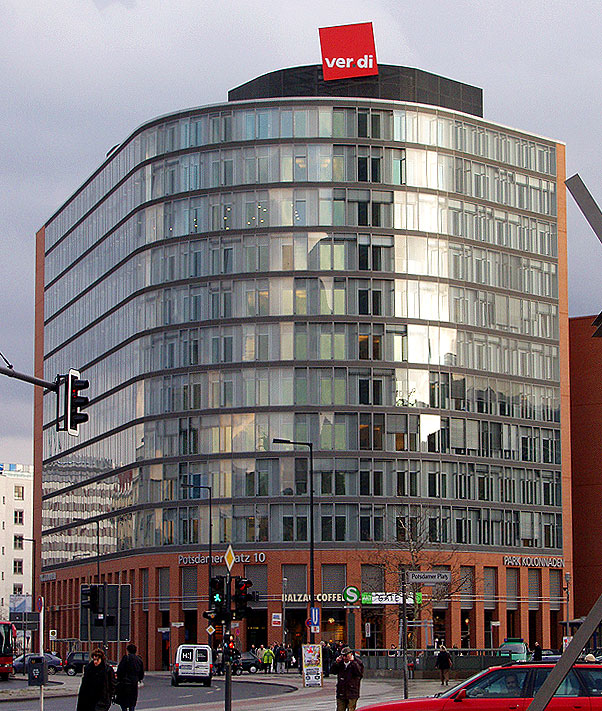 Former headquarter of the German labour union Verdi near Potsdamer Platz, Berlin